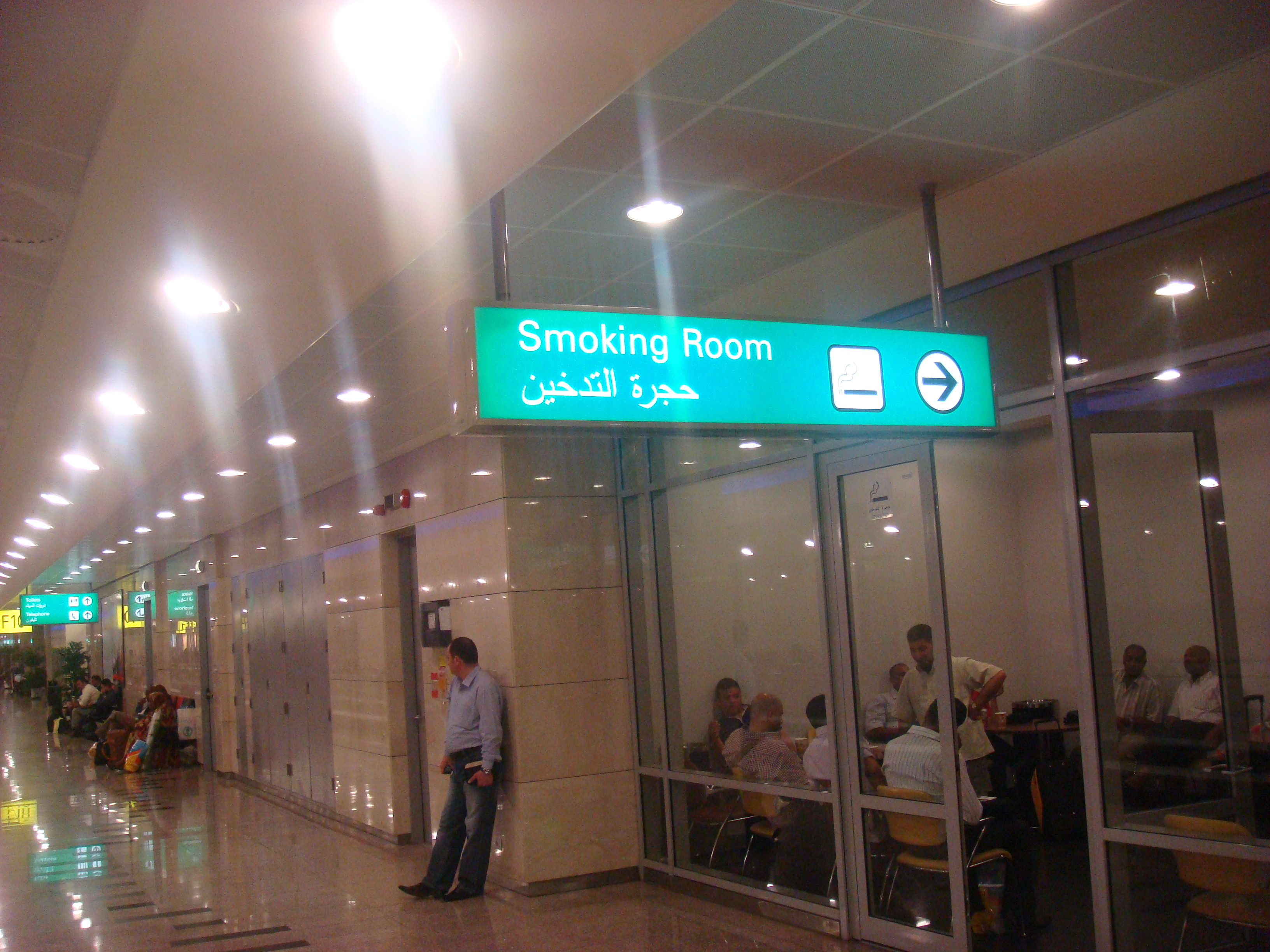 Smoking Room, Terminal 3, Cairo International Airport